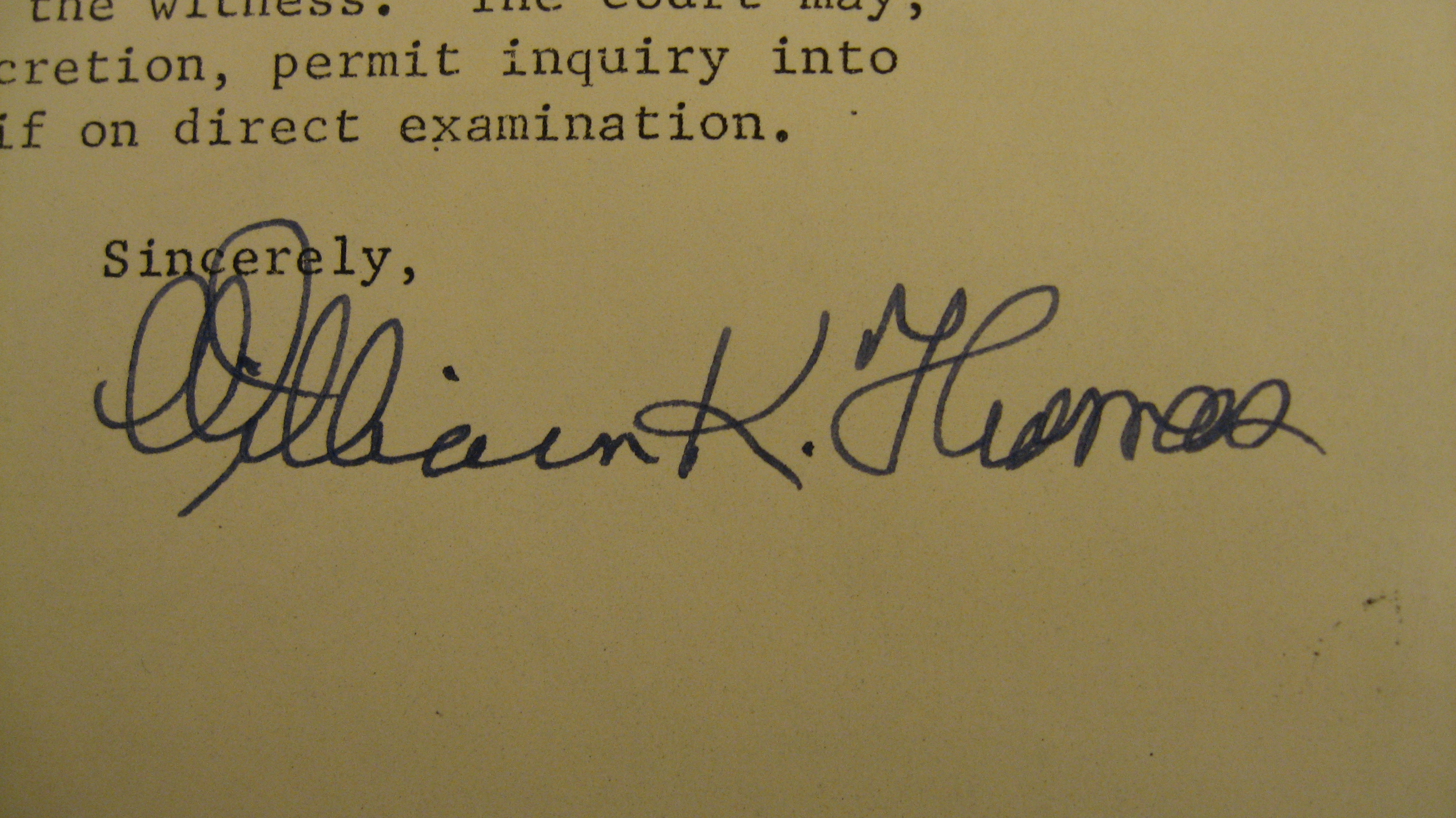 Signature of William Kernahan Thomas, U.S. federal judge